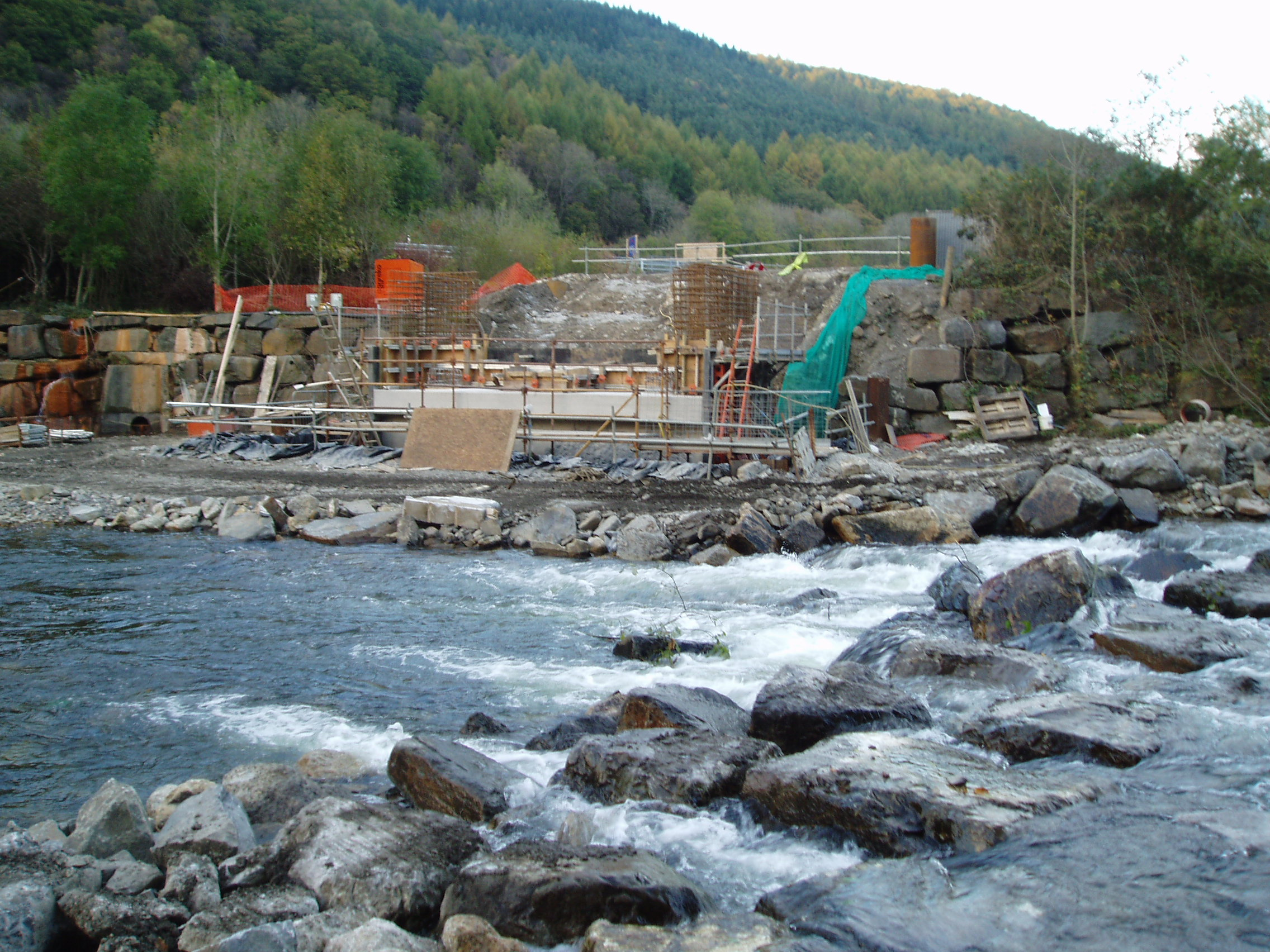 Construction of the piers for the replacement Ynysbwllog aqueduct where the Neath Canal crosses the River Neath